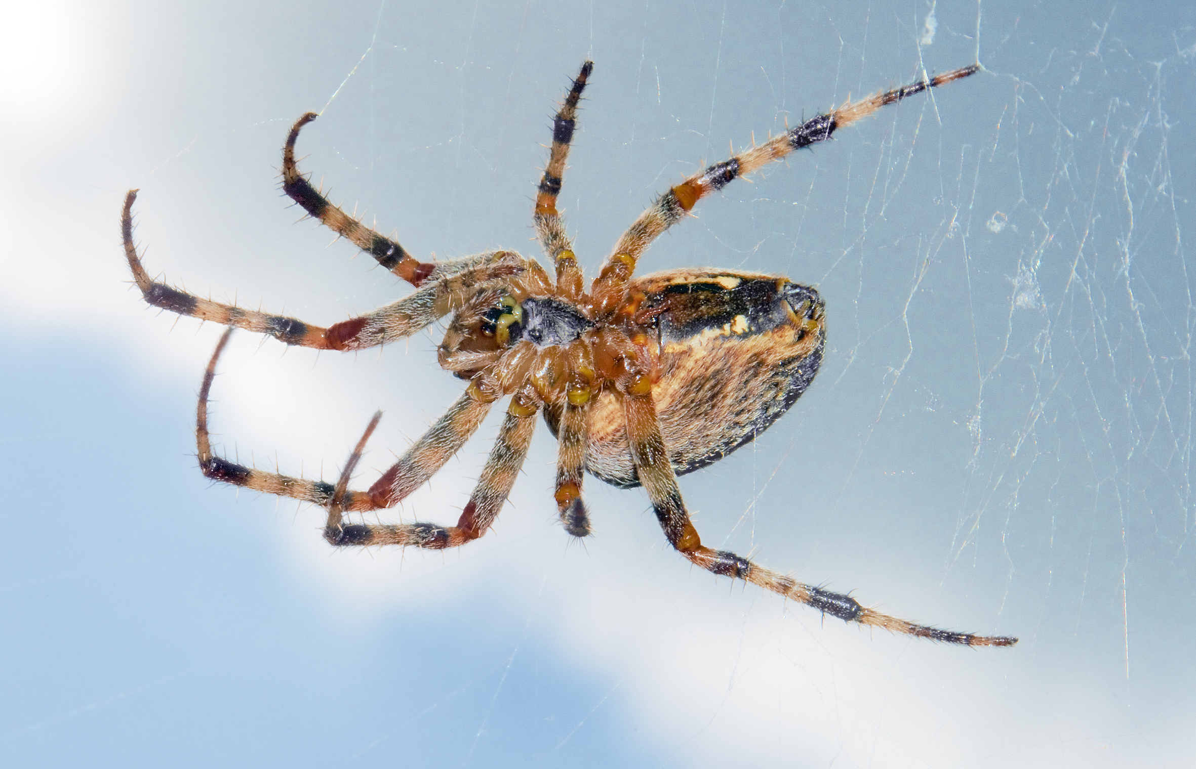 Underside of a European garden spider (Araneus diadematus) in its web.